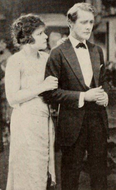 Still from the American drama film The Way of a Woman (1919) with Norma Talmadge and George Le Guere, on page 51 of the June 21, 1919 Exhibitors Herald.